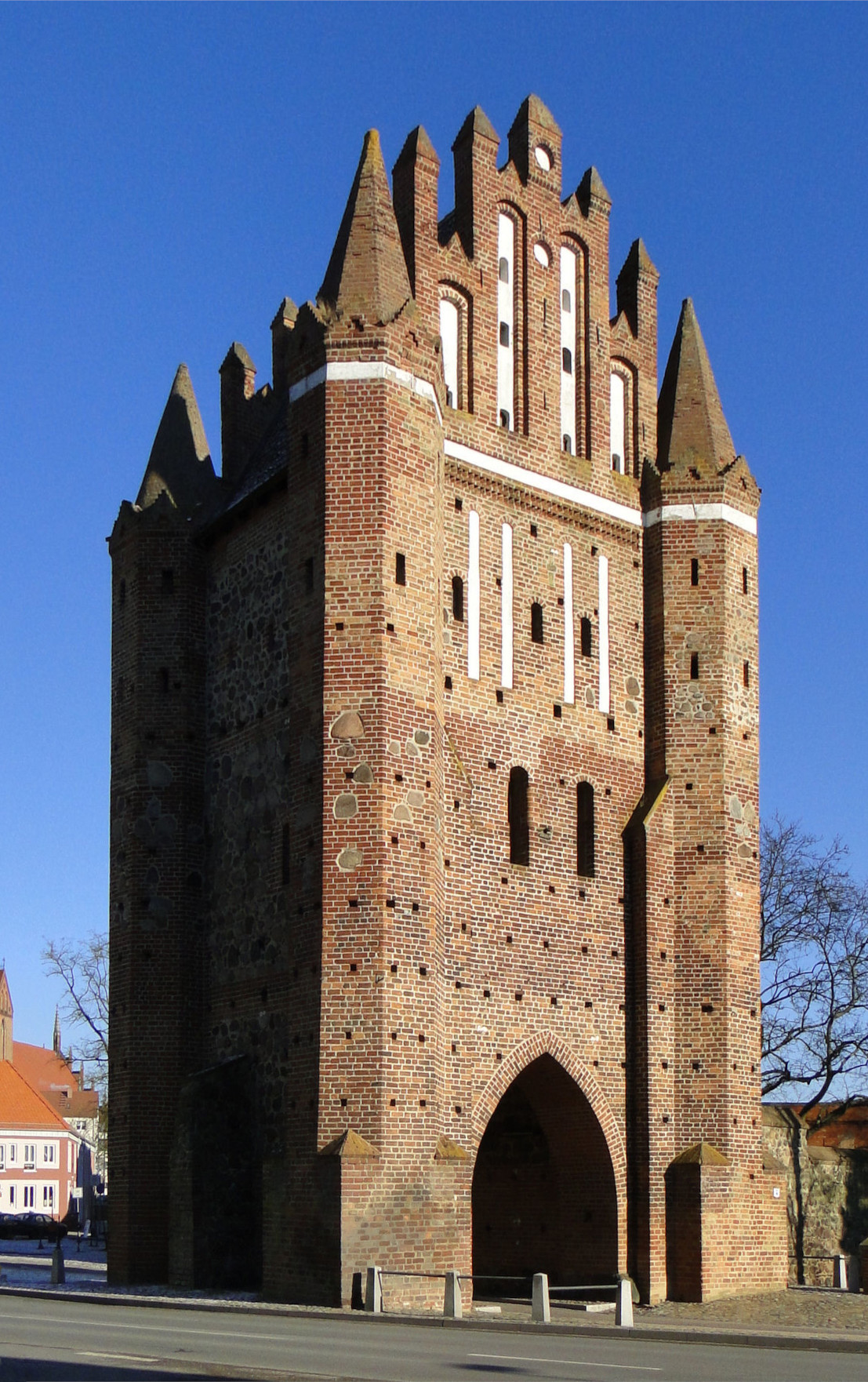 City gate Neubrandenburger Tor in Friedland, district Mecklenburg-Strelitz, Mecklenburg-Vorpommern, Germany